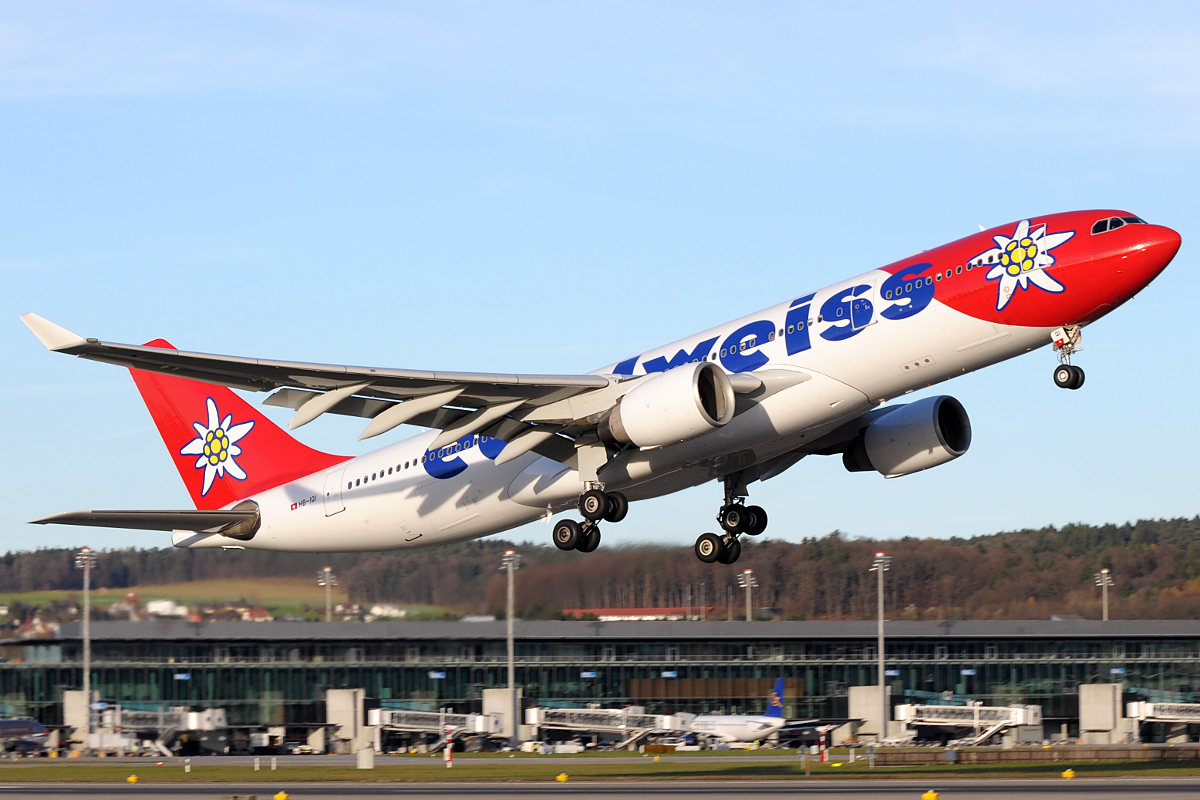 Edelweiss Air A330-200 taking off from Zurich-Kloten airport